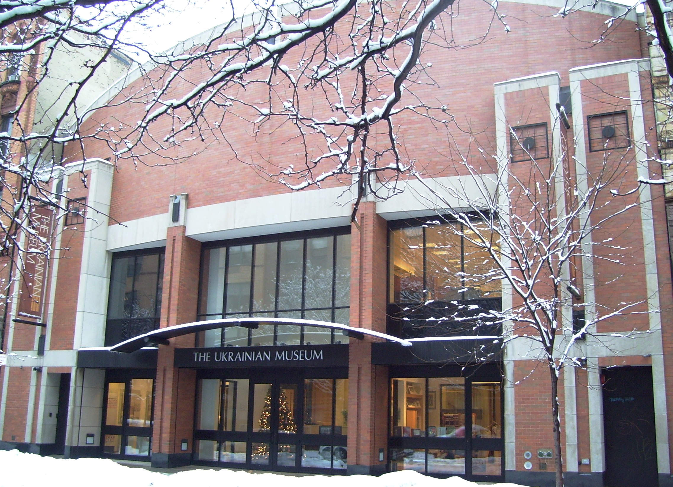 The Ukrainian Museum at 222 East 6th Street in the East Village neighborhood of Manhattan, New York